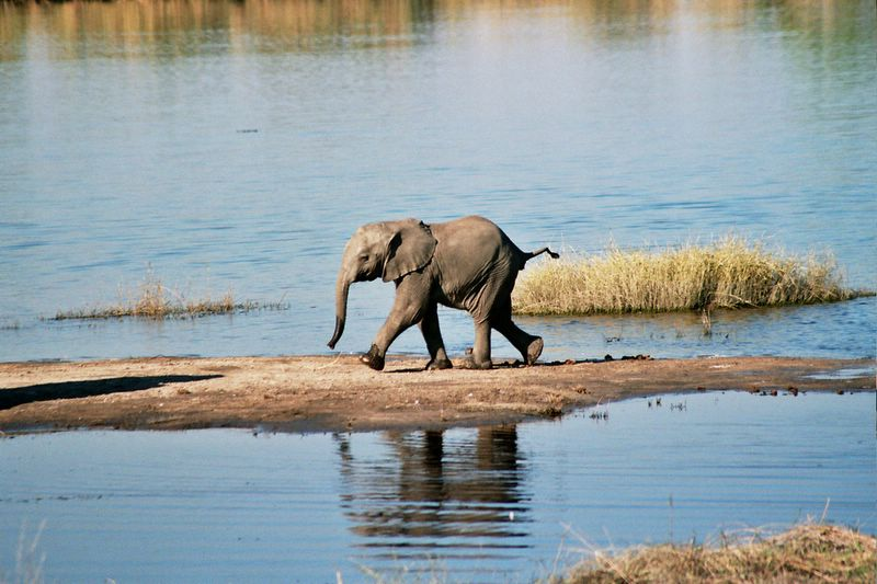 Baby elephant seen in Serondela, on the banks of the Chobe River, in Chobe National Park.